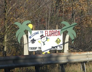 I took this picture. I consider it a vital addition to the article of the fine town of Florida, Massachusetts.